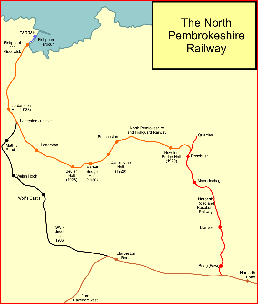 System map of the Narberth Road and Rosebush Railway and the North Pembrokeshire and Fishguard Railway in Wales